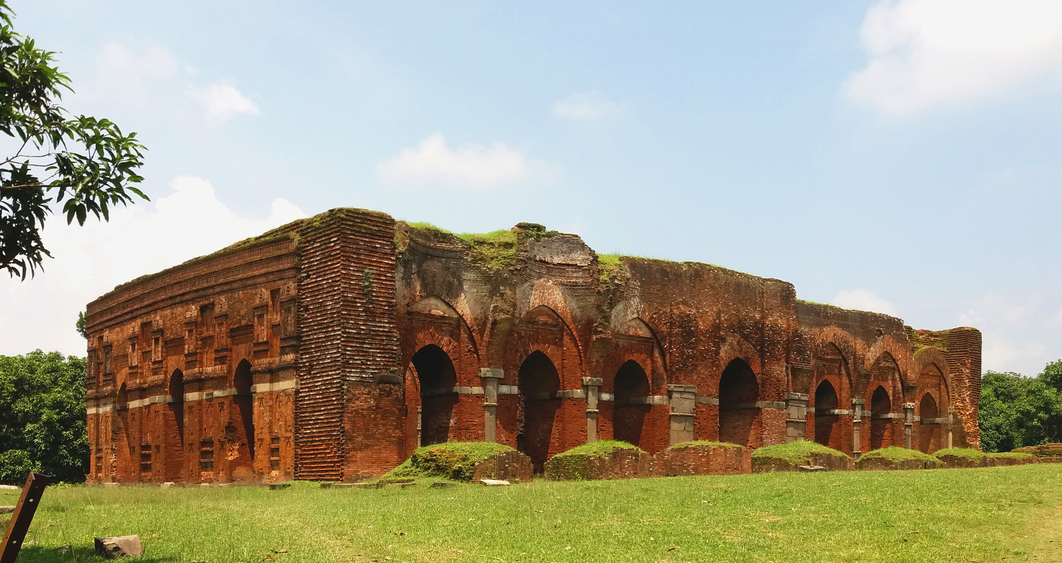 Darasbari Mosque is a historic mosque that was built in 1479 AD and is located in Shibganj Upazila of Chapai Nawabganj District, Bangladesh.